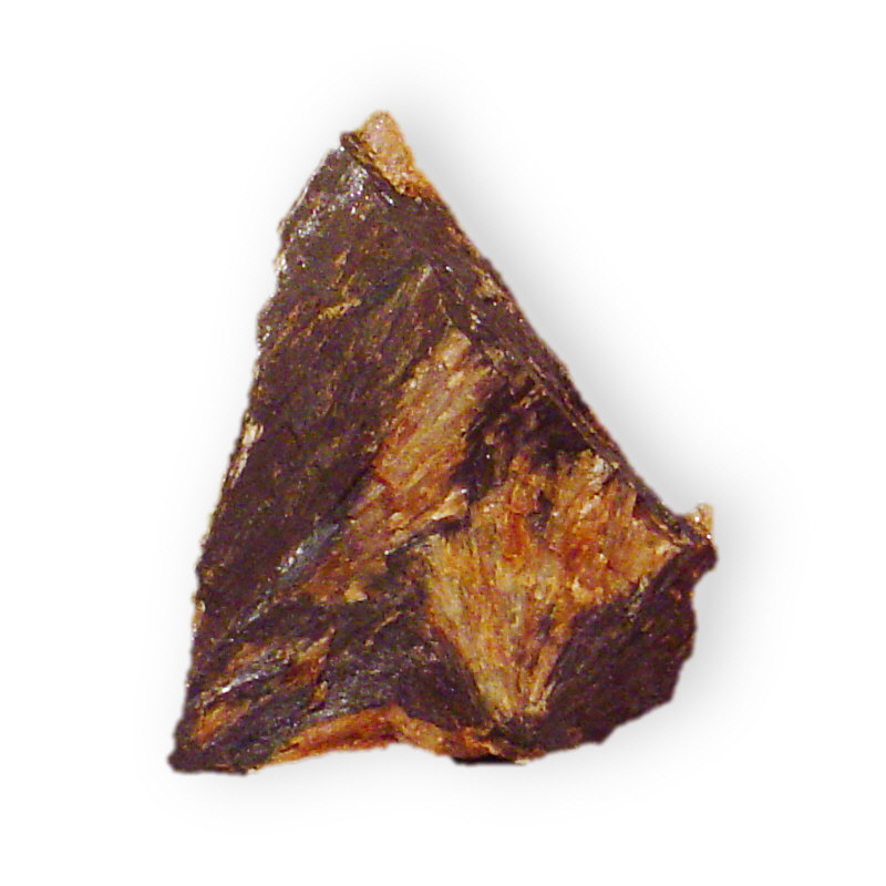 These mineral images are free to use how you wish.